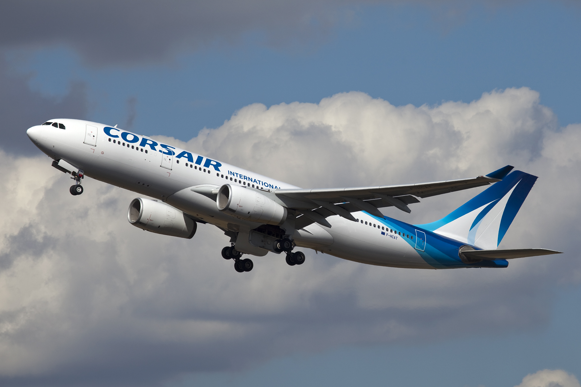 Corsair International Airbus A330-200 at Paris-Orly Airport